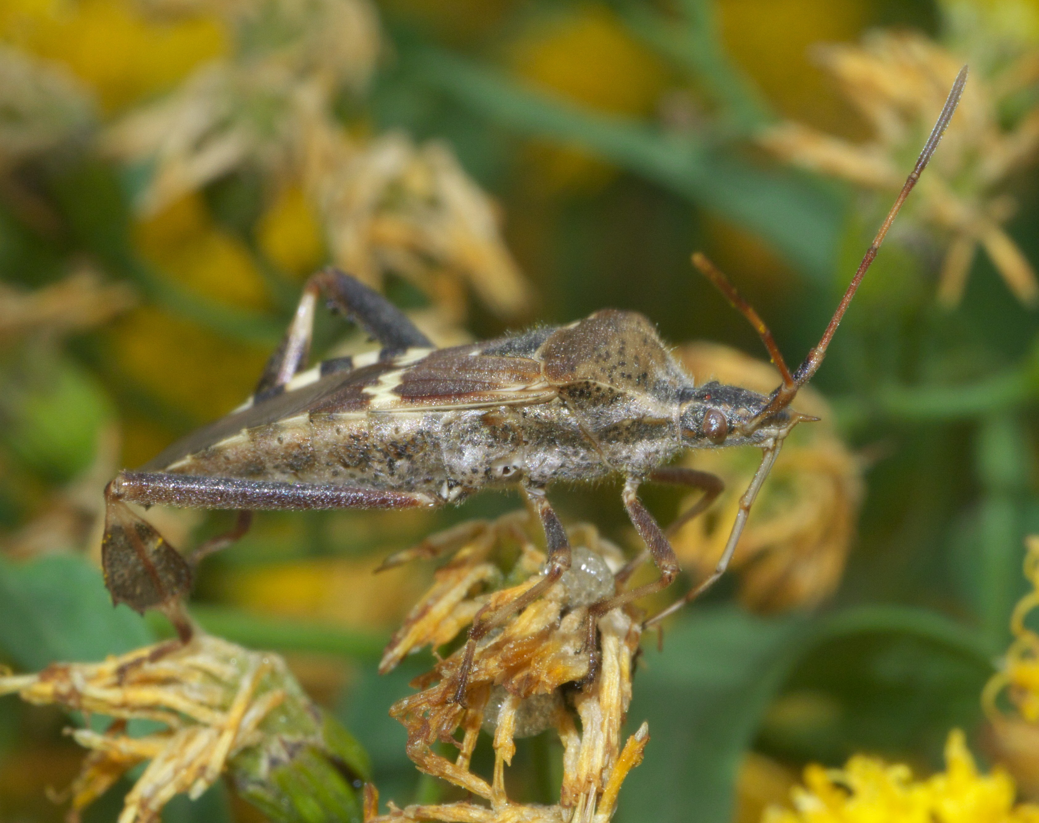 Leptoglossus clypealis, Western Leaf-footed Bug, ID Confidence: 95